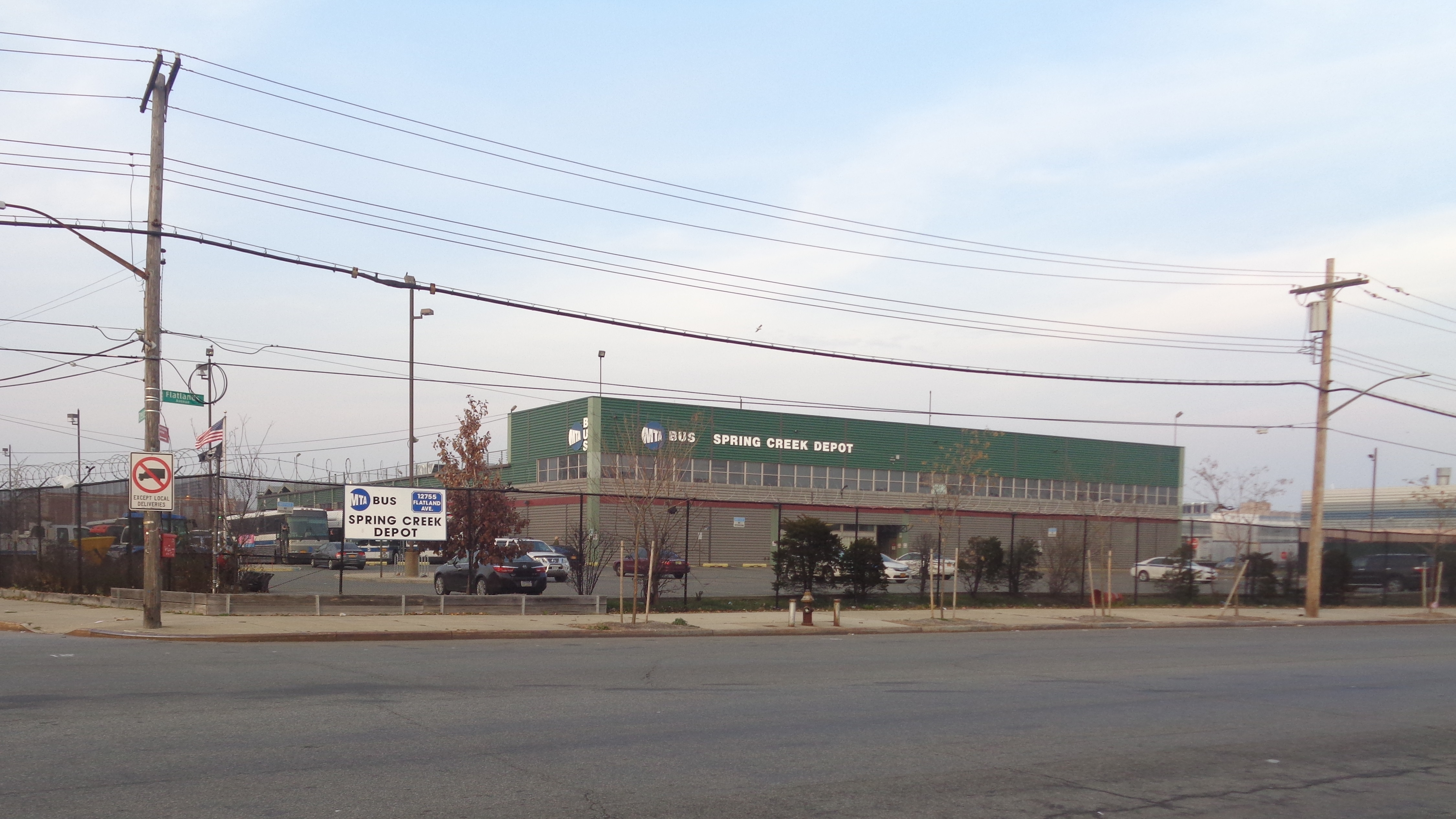 The Spring Creek Bus Depot in Spring Creek, Brooklyn, currently operated by the MTA Bus Company. It was formerly the depot for the Command Bus Company.